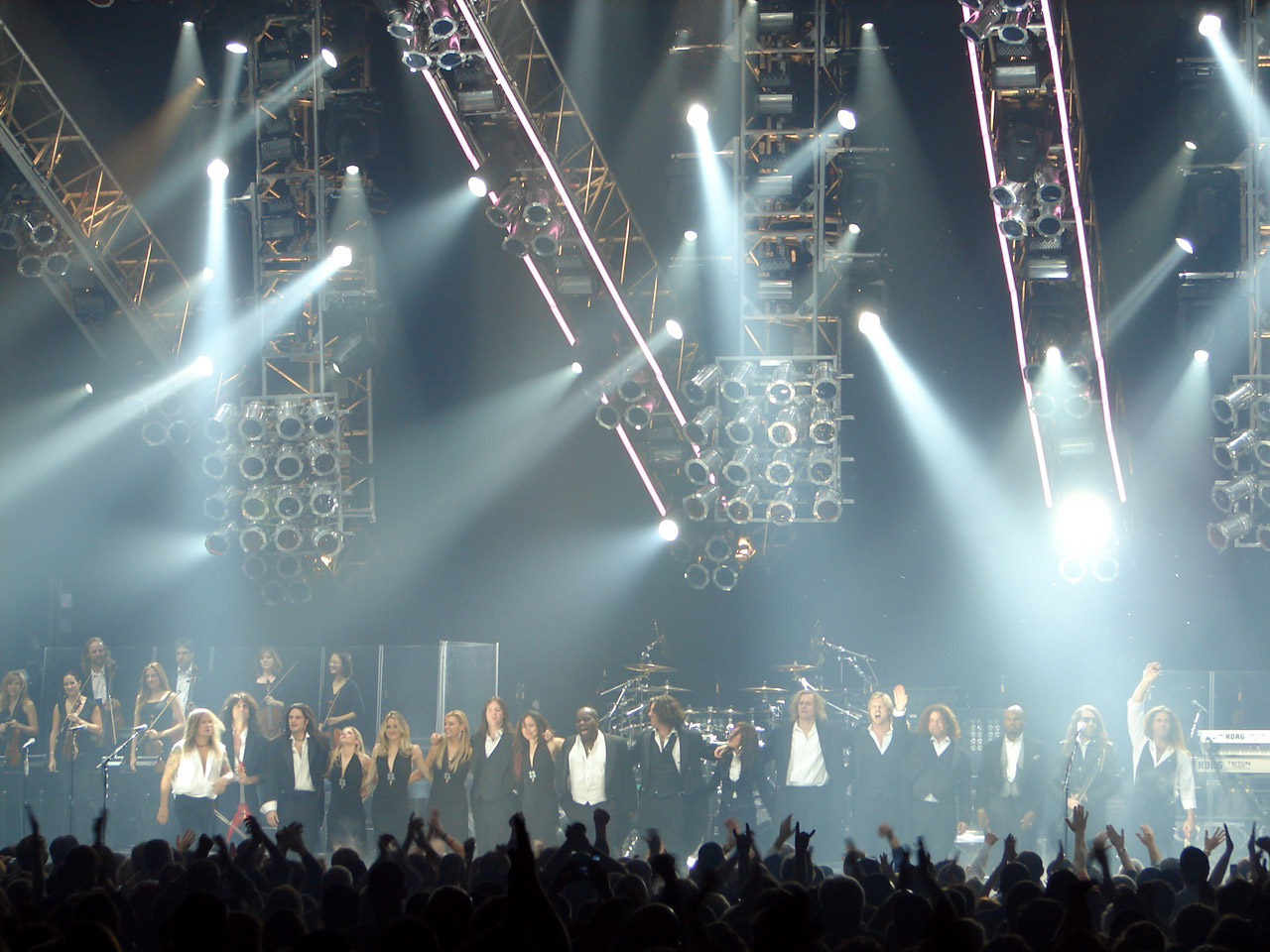 Shots from the Hershey GIANT Center performance of the Trans-Siberian Orchestra, November 2006. Hershey, Pennsylvania